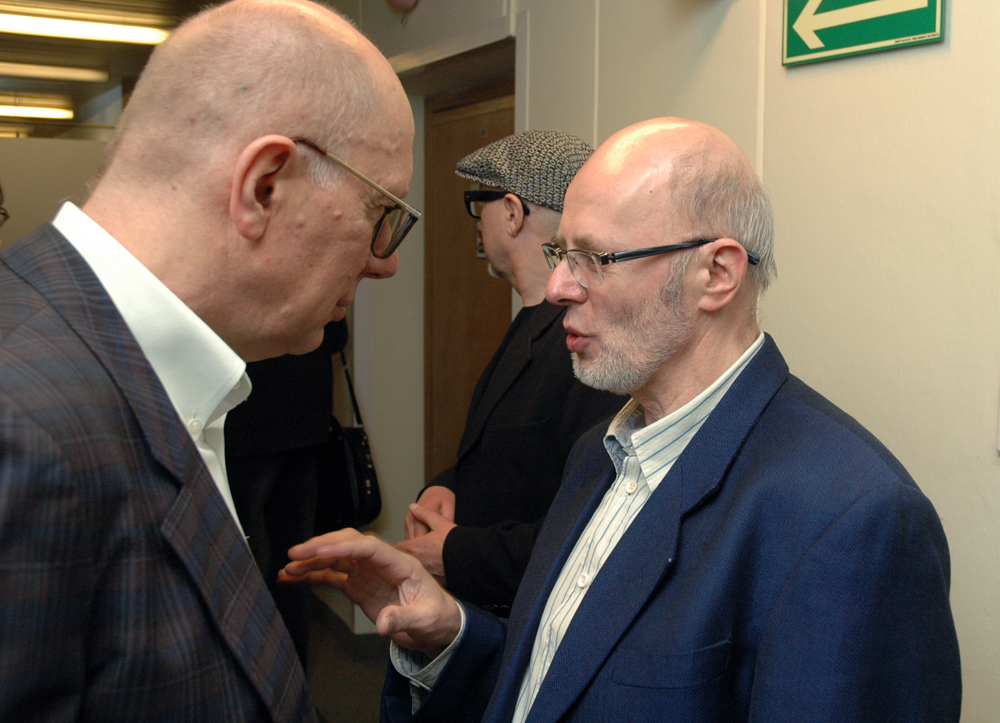 Marek Rohr-Garztecki (right) in discussion with T.Tluczkiewicz in Polskie Radio studio.